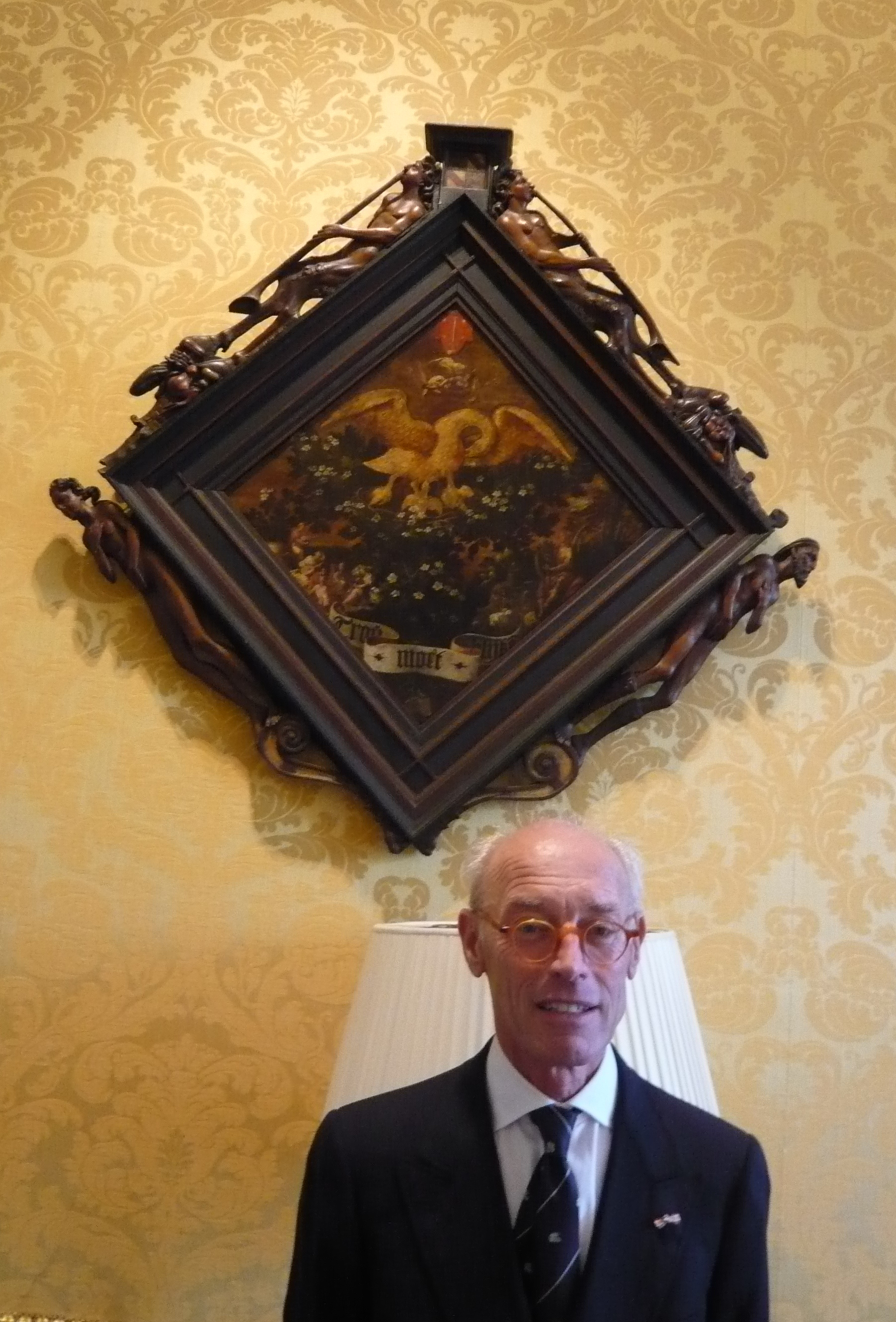 Pieter Biesboer, member of the club Trou moet Blijcken, stands under the historic painting with the motto of the club, Faith must Show painted by Jan Nagel. As club member he received visitors on Monument Day, 2010, wearing the ribbon on his lapel, Ridder in de Orde van Oranje-Nassau, that he received for 32 years service as curator of the Frans Hals Museum, Haarlem.